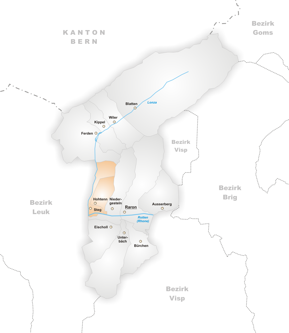 Municipalities of District Westlich Raron until 2008